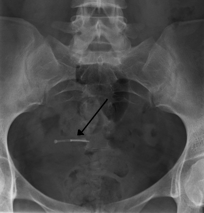 An IUD as seen on X ray